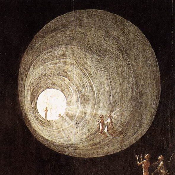 Detail of Ascent of the Blessed by Hieronymus Bosch 1500 - 1504